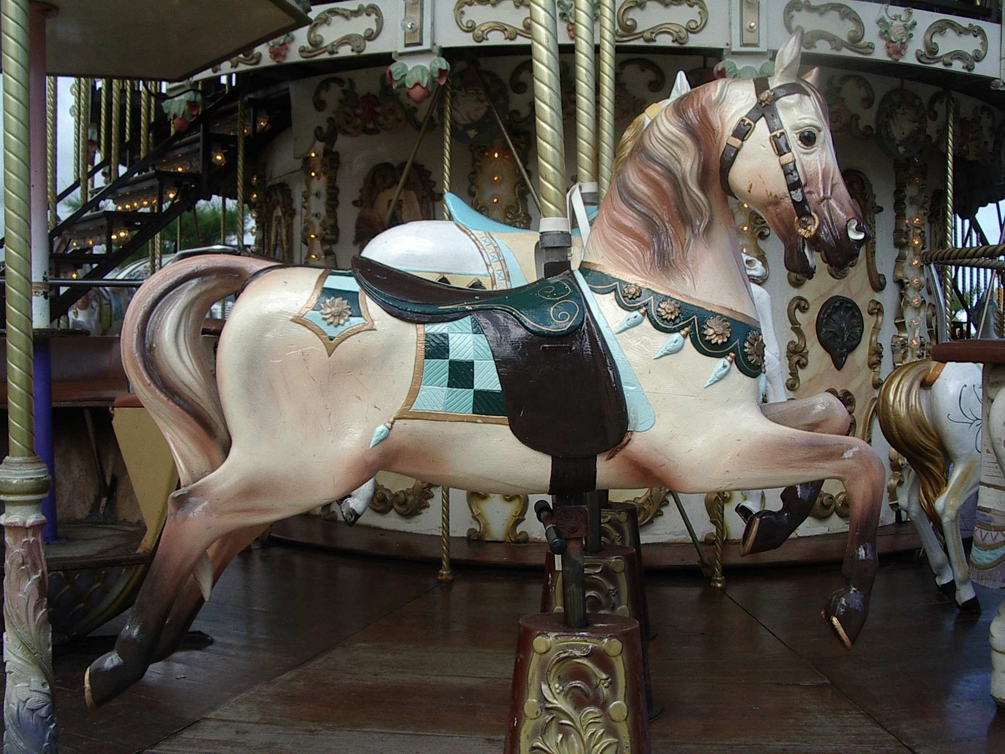 A Carousel horse in Donostia (San Sebastián), Basque Country, Spain